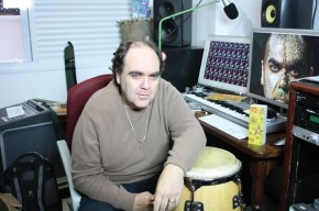 Músico brasileiro André Abujamra em imagem do acervo da TV Brasil.